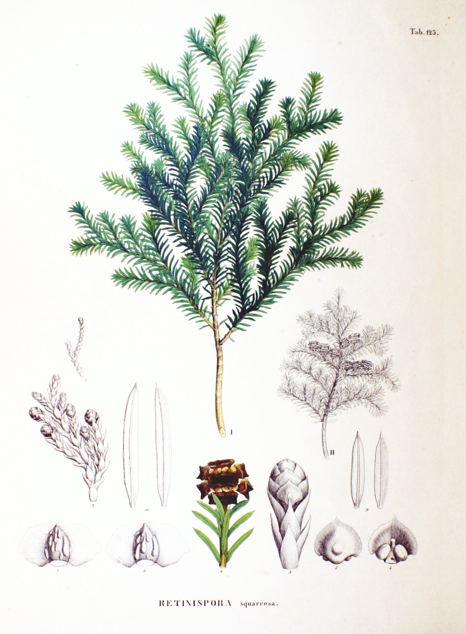 Chamaecyparis pisifera 'Squarrosa' Plate from book